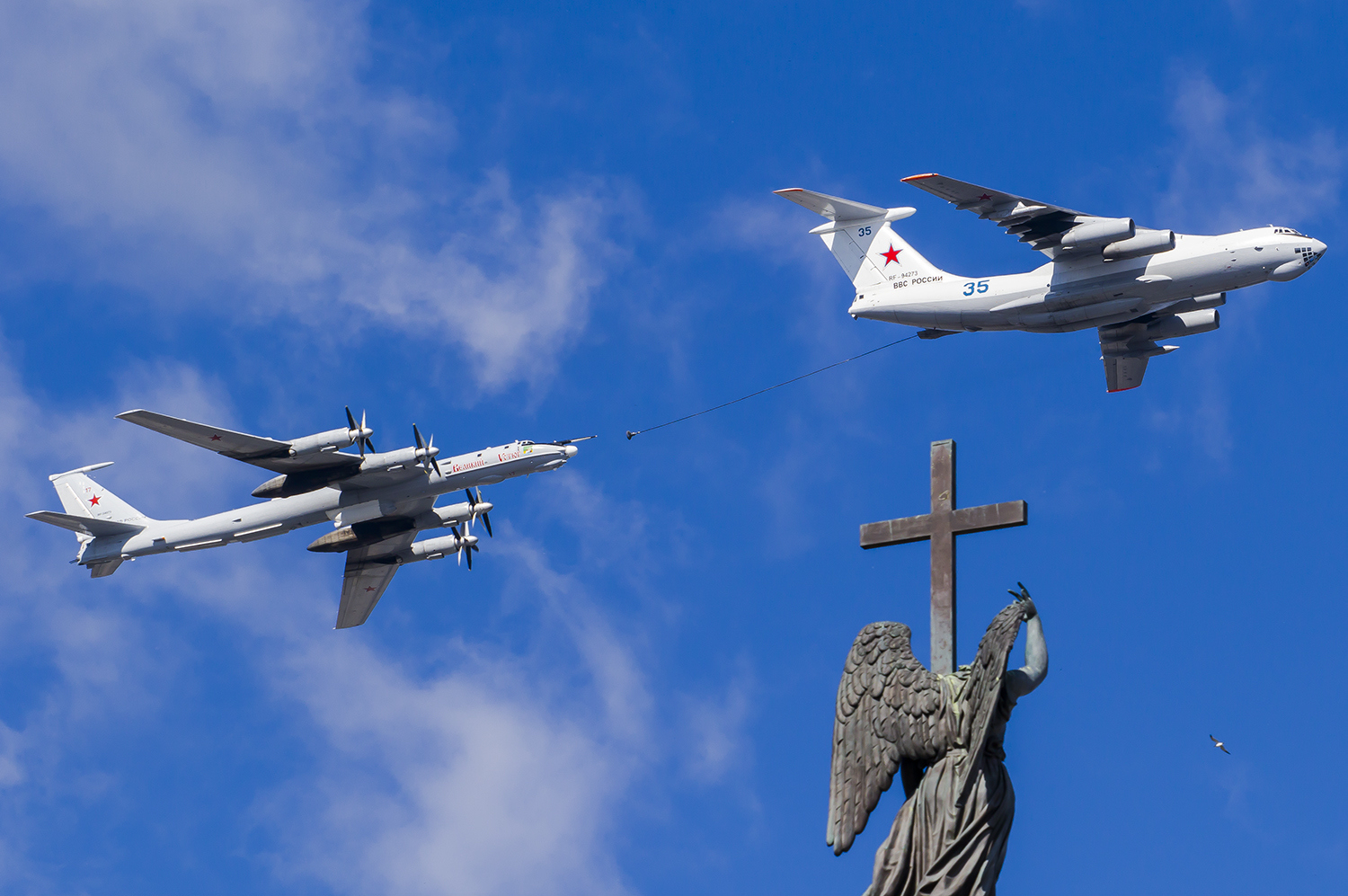 Il-78M (RF-94273) simulating aerial refueling of a Tu-142MR (RF-34073) over Alexander's Column in Saint Petersburg